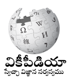 Wikipedia logo 2.0